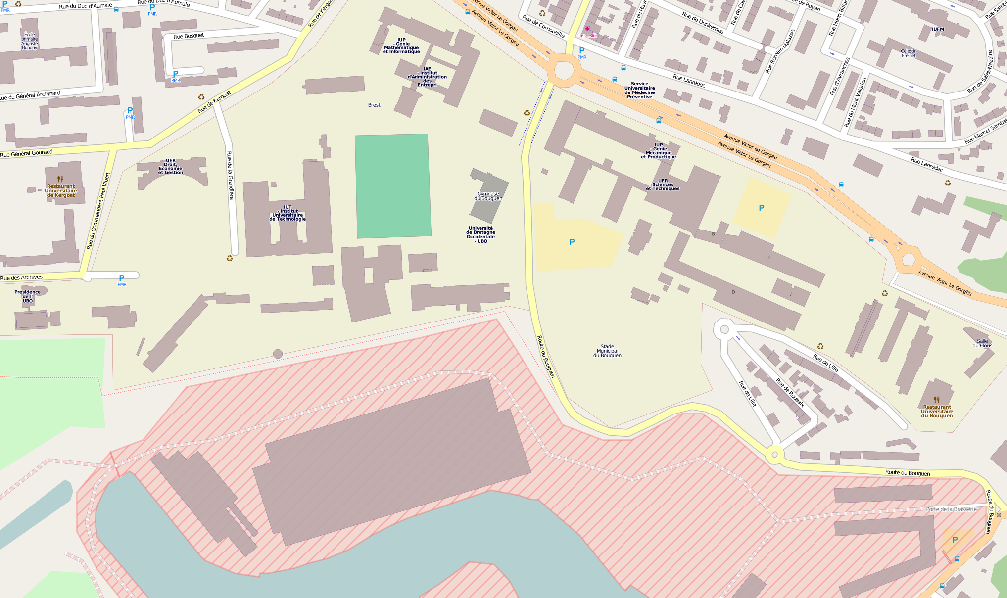 University of Western Brittany map in downtown Brest